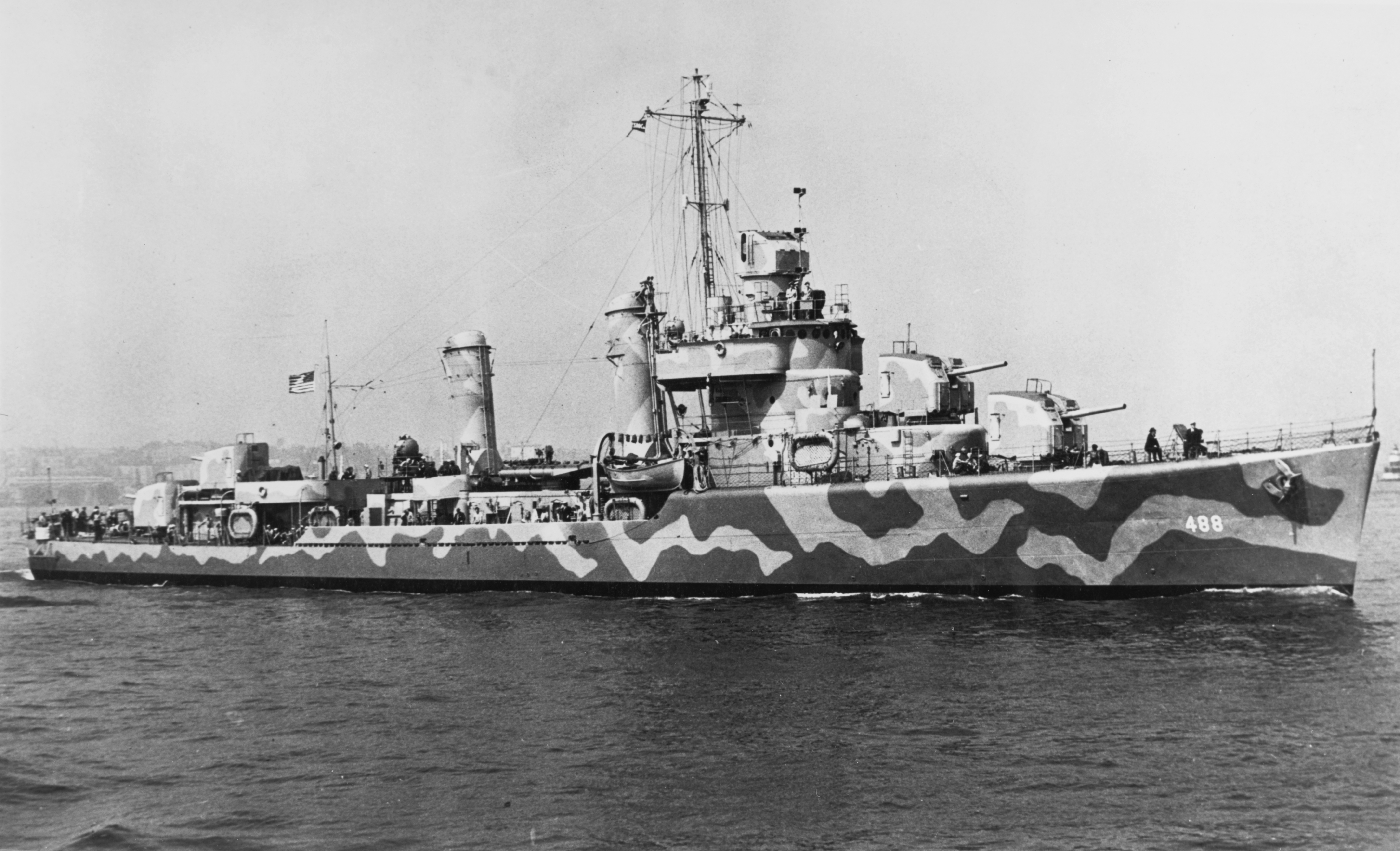 The U.S. Navy destroyer USS McCalla (DD-488) underway on her delivery voyage from the Federal Shipbuilding and Dry Dock Company shipyard, at Kearny, New Jersey (USA), to the New York Naval Shipyard, 26 May 1942. She was commissioned on the following day. Note the Federal SB & DD Co. flag flying just below her starboard yardarm.